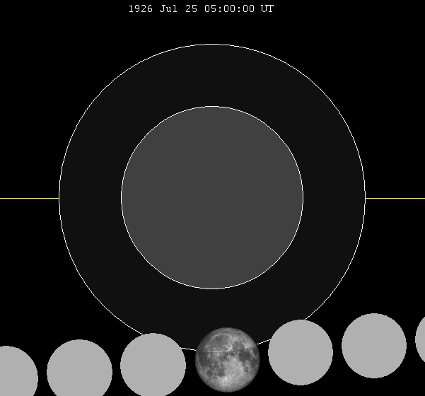 =lunar eclipse chart of moon's path through the earth's shadow. thumb